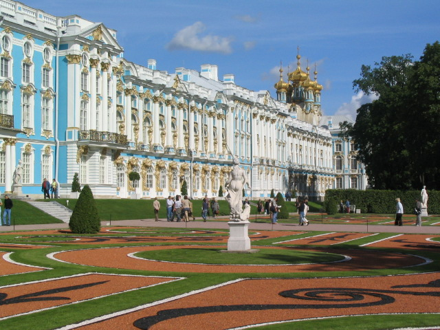 Pushkin (Russia), Catherine Palace